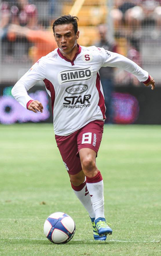 Walter Centeno playing for Gabriel Badilla's team of friends on June 26th, 2016.